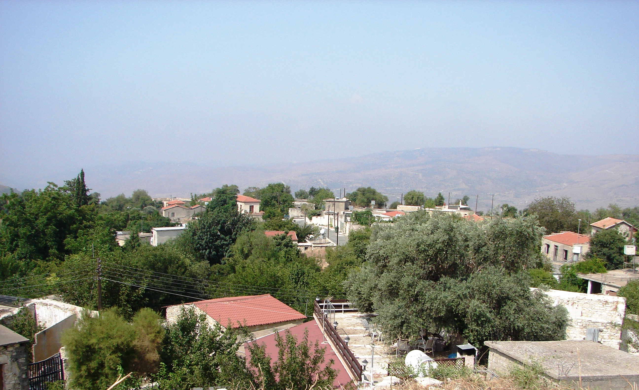 View of Agios Ioannis, Paphos.